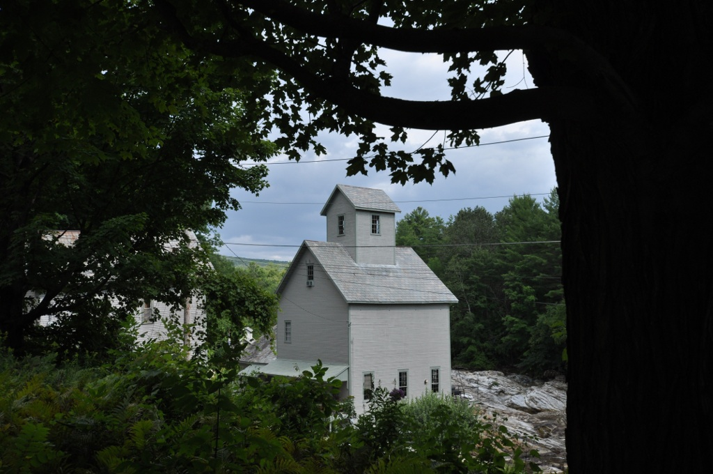 Kingsley Grist Mill Historic District, Clarendon, Vermont. Part of the grist mill.